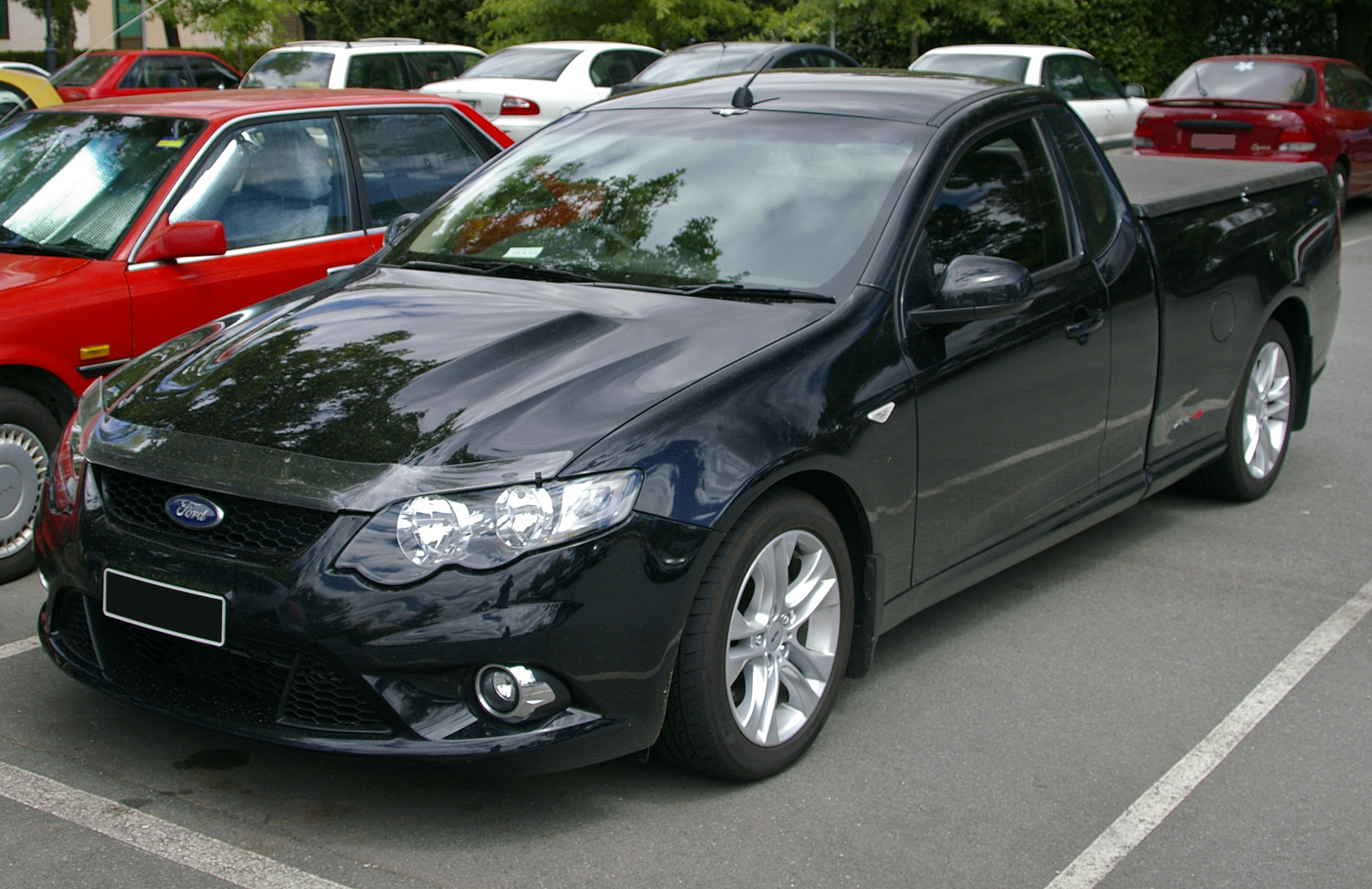 Front view of a 2008 Ford FG Falcon XR8 Ute.